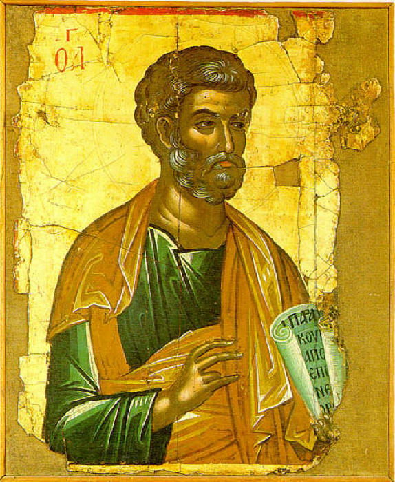 Apostle Peter - Stavronikita monastery, Mt Athos - Theophanes of Crete, 16th c.